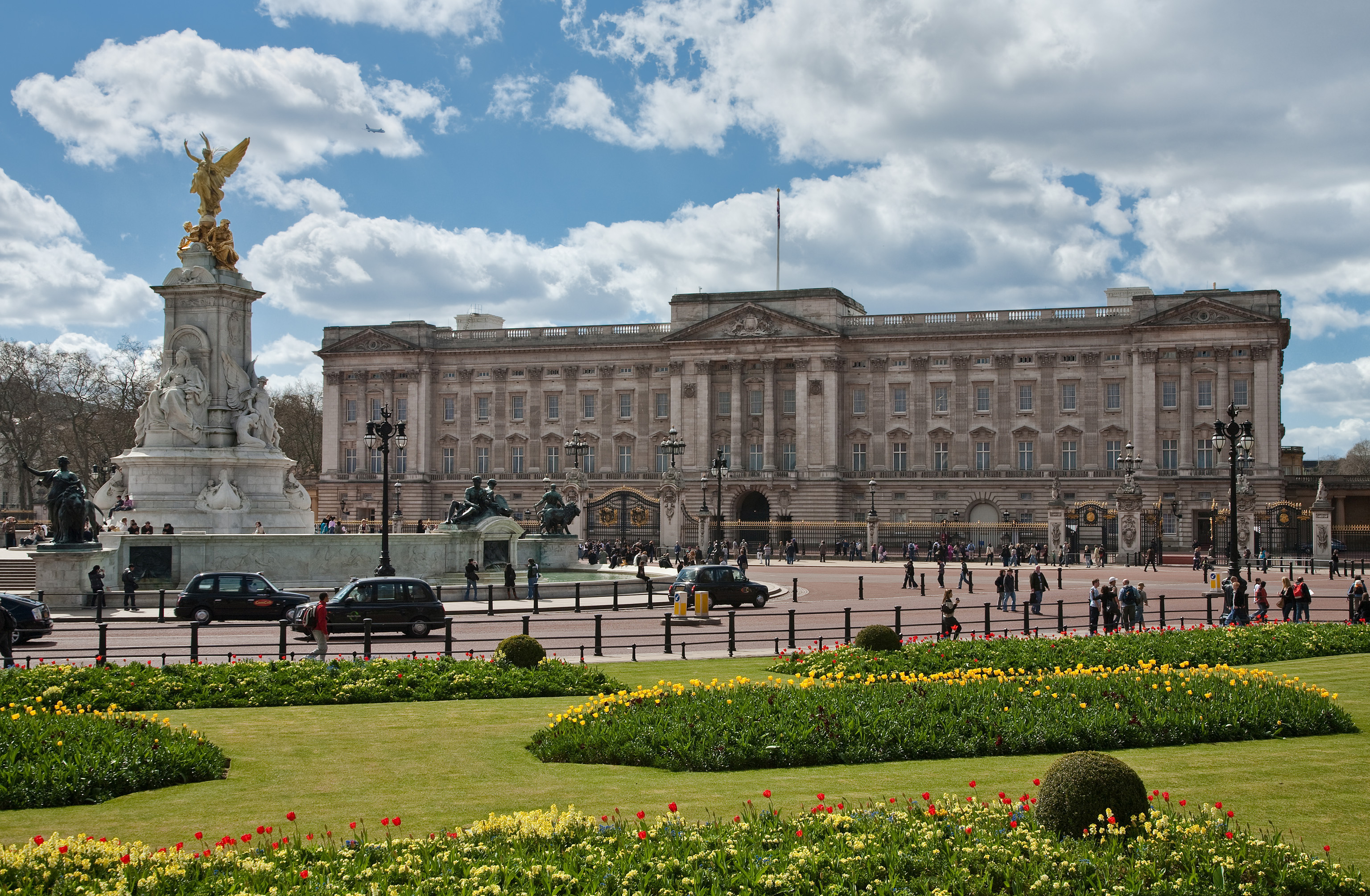 Buckingham Palace in London, England. taken by myself with a Canon 5D and 24-105mm f/4L IS lens.